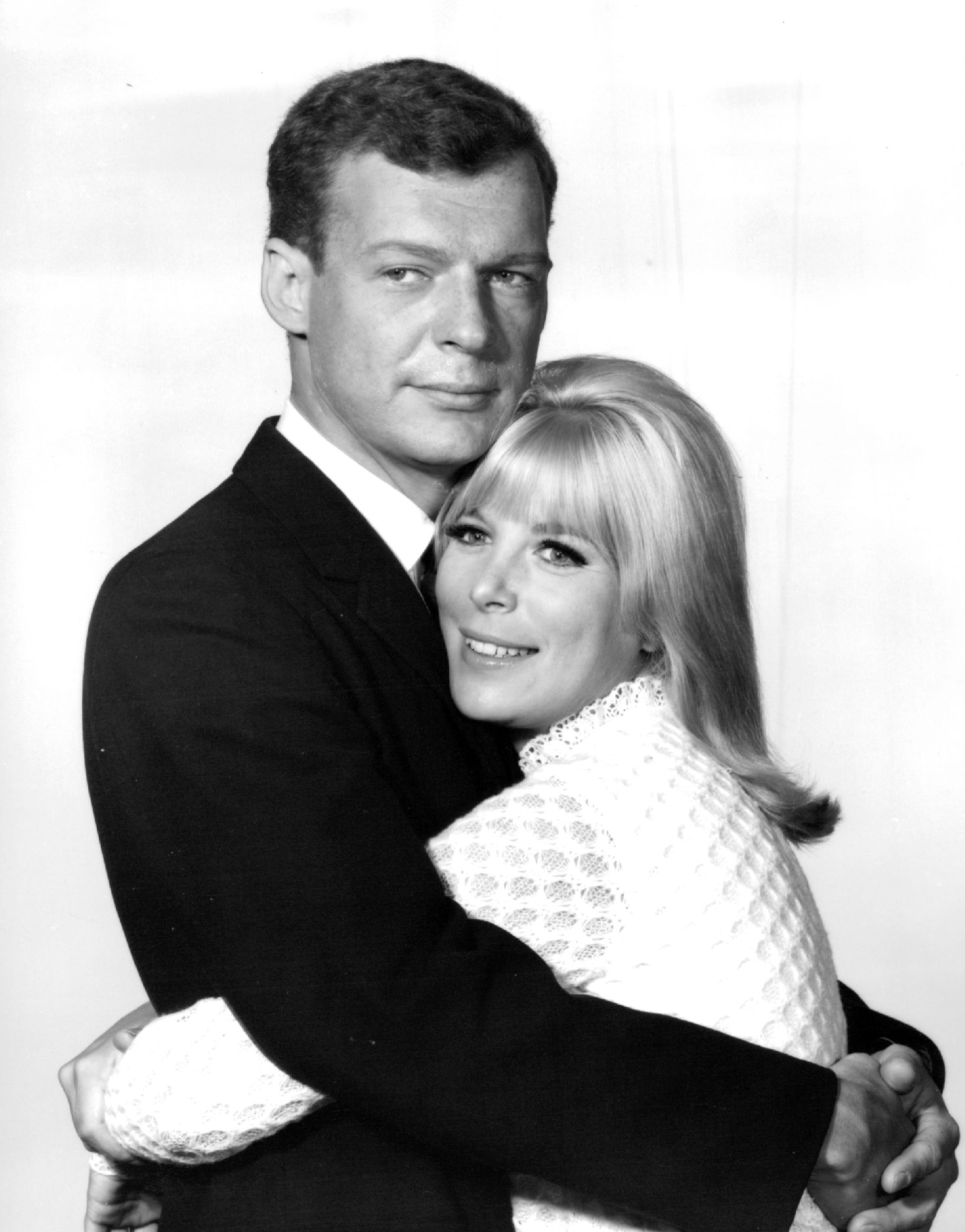 Photo of Edward Mallory and Elizabeth Perry from the daytime drama Morning Star. Mallory is best known for his work on Days of our Lives.